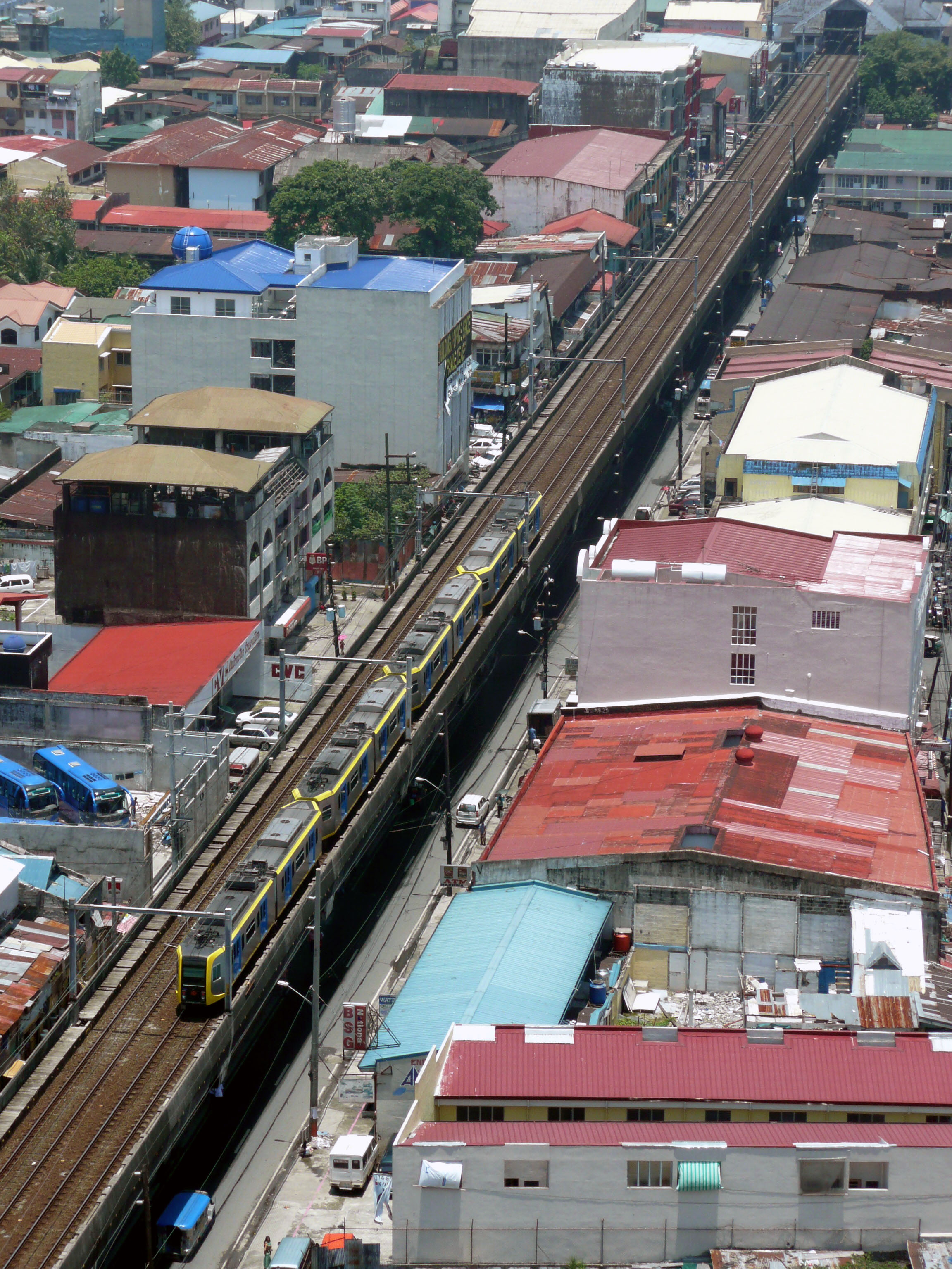 Manila Light Rail Transit System